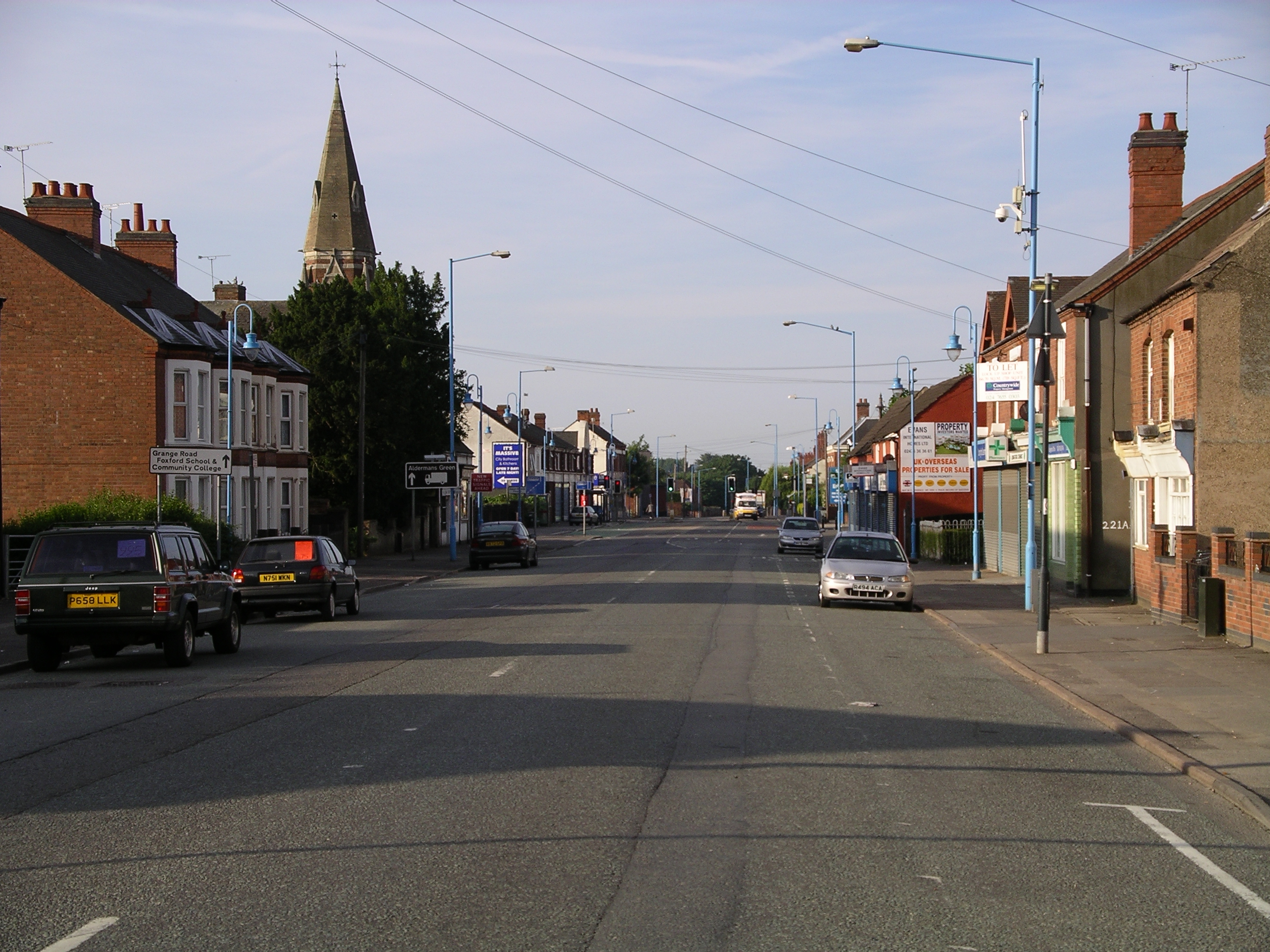 photo of Longford Road, Longford, Coventry, West Midlands, England. (looking south)